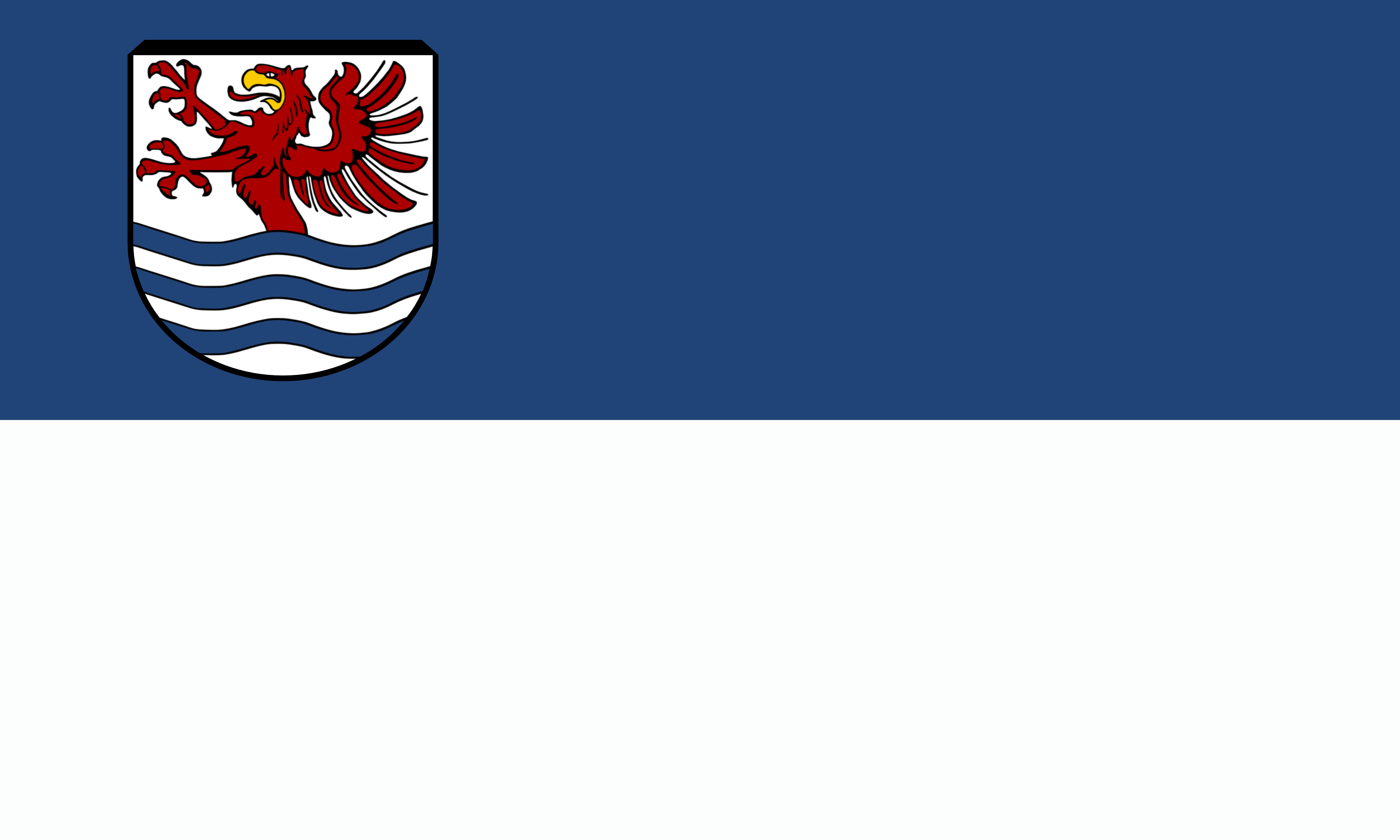 Flag of the city of Stolp (today Słupsk).